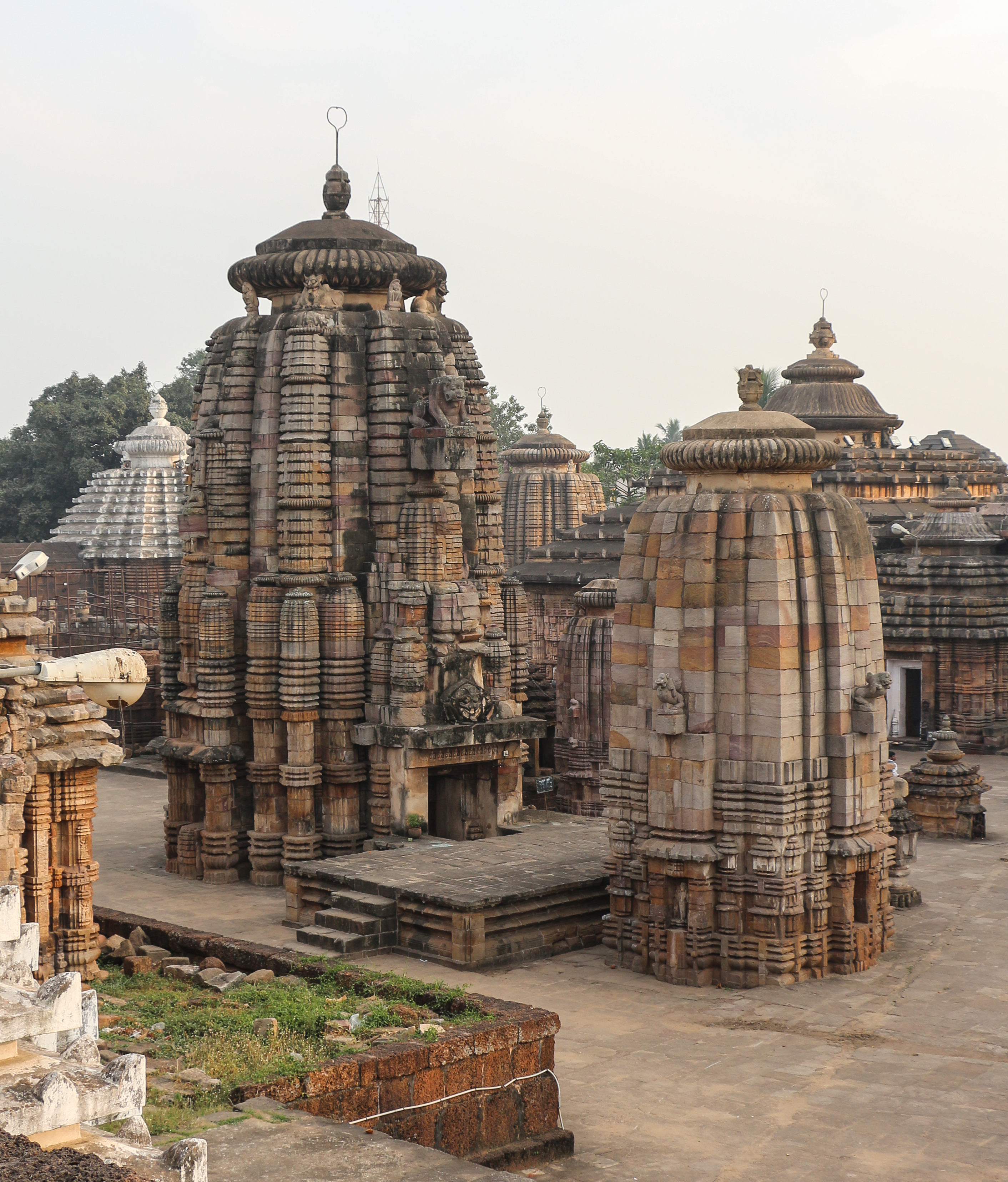 Lingaraja Temple, Bhubaneswar, India